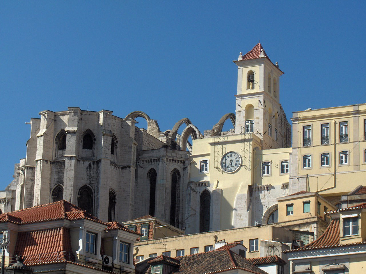 Ruins of the Igreja do Carmo; Lisbon, Portugal